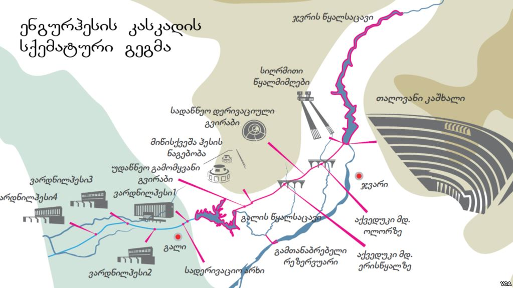 A scheme of the Enguri hydropower plant in western Georgia, showing the distribution of its facilities in Abkhazia and Georgia proper.